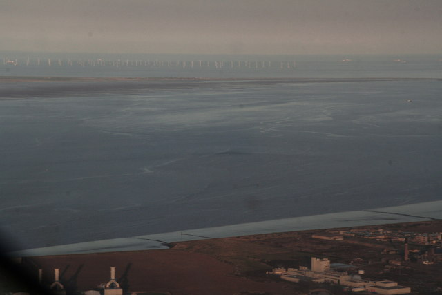 Aerial photo of Humber Gateway Wind Farm in the North Sea.